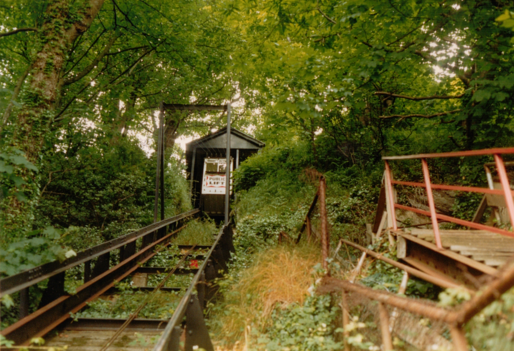 The Falcon Cliff Lift in Douglas, Isle of Man, a year after closure.